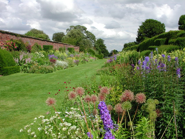 Arley Hall: the herbaceous border One of the best herbaceous borders in the UK, though at its best about a month earlier than this photo.